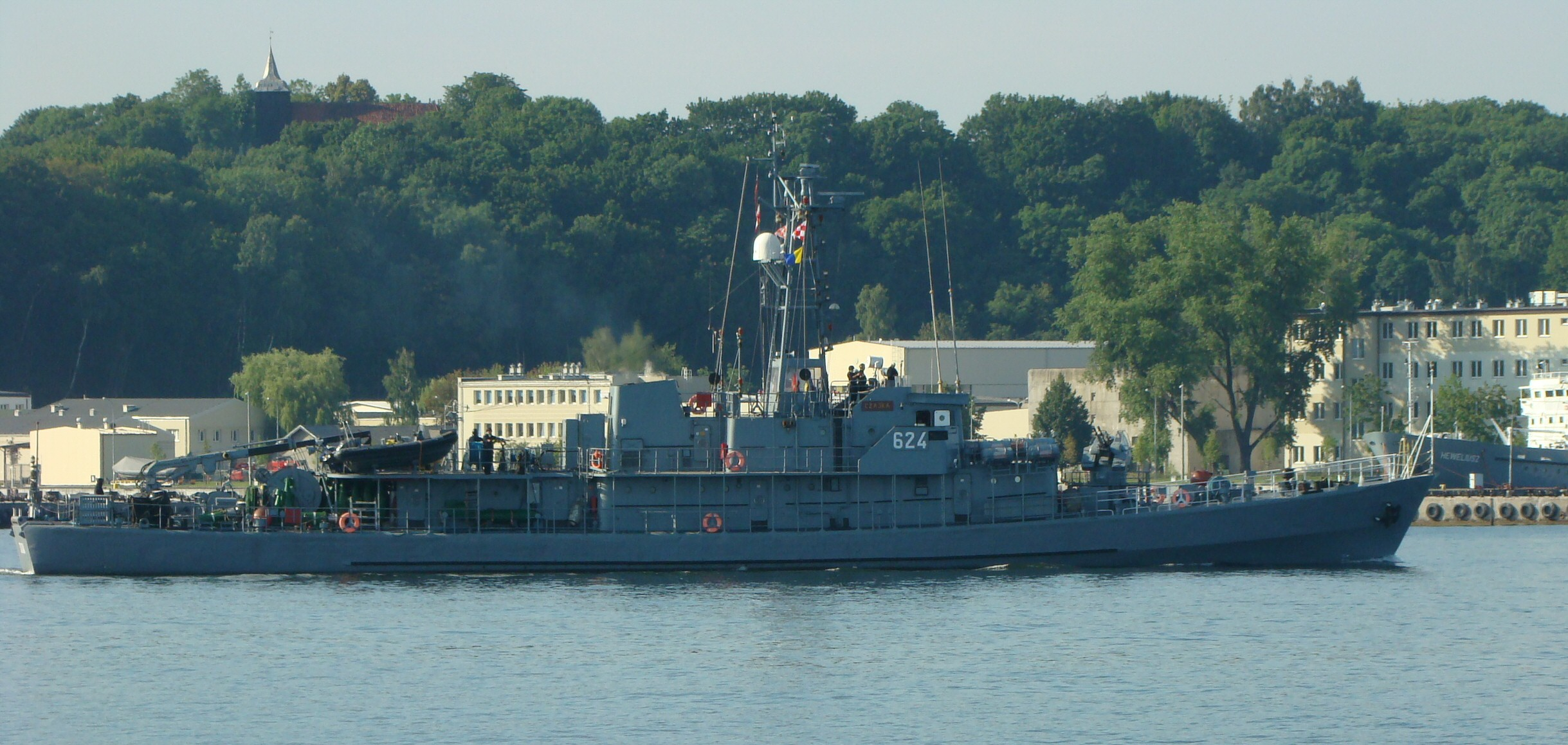 ORP Czajka minesweeper in Gdynia.